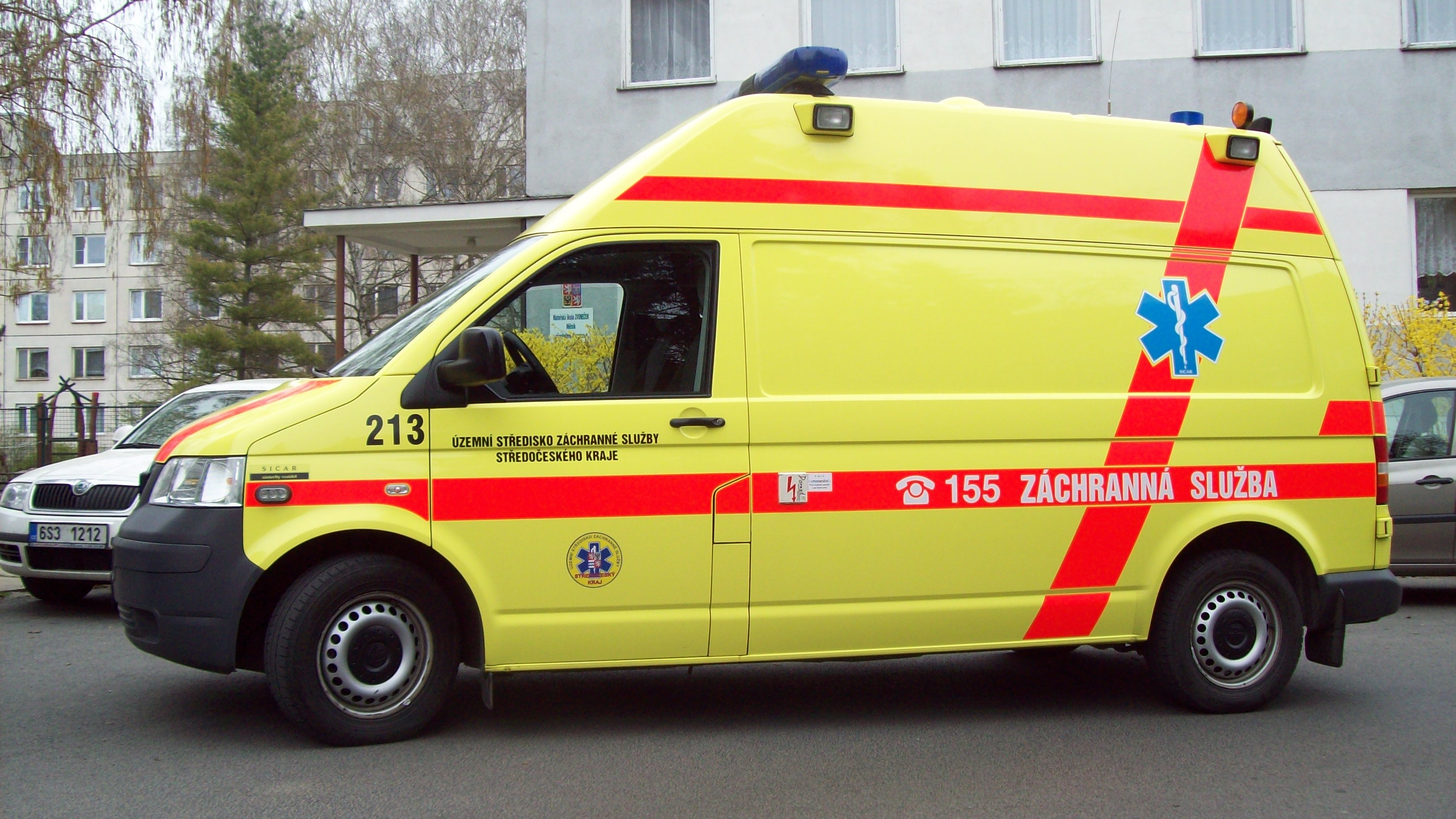 Ambulance Volkswagen Transporter T5 of Územní středisko záchranné služby Středočeského kraje, Mělník, Mělník District, Central Bohemian Region, Czech Republic